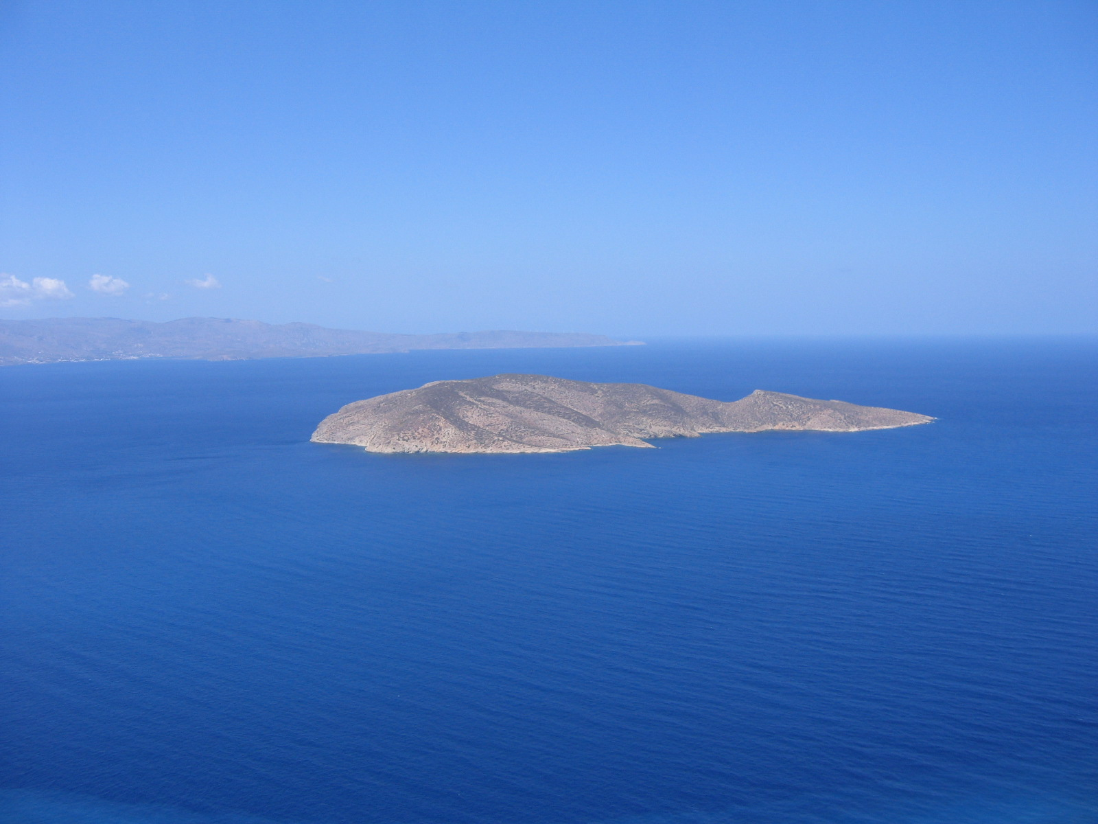 Island of Psira north of Crete in the Gulf of Mirabella